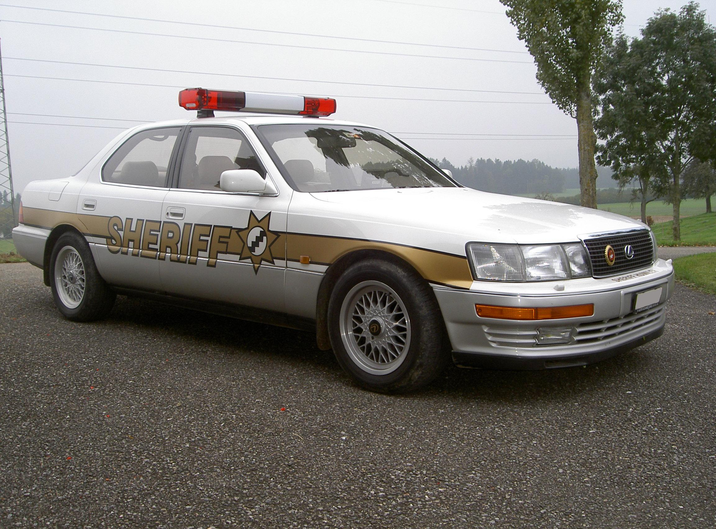 Description: SHERIFF CAR Source: self take Author: youngswissman Date: 16.10.2006